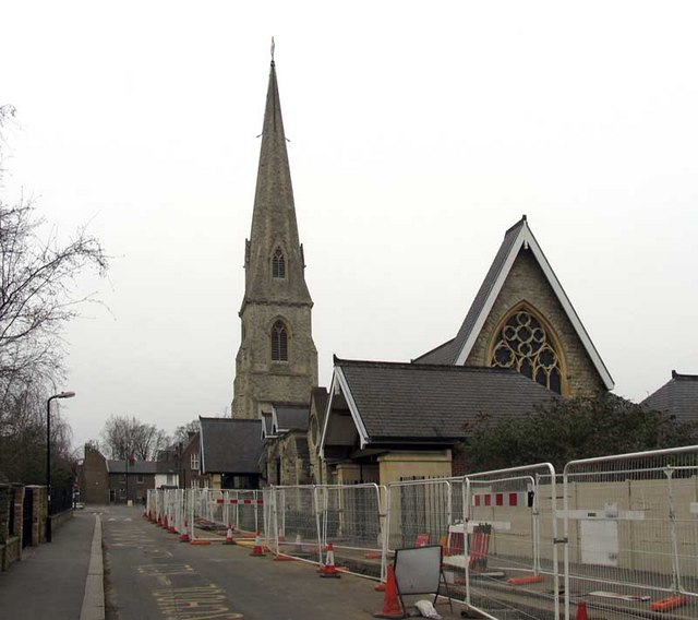 Part of St Paul's parish church, St Paul's Road, Brentford, Middlesex TW8, showing the Gothic Revival tower and spire